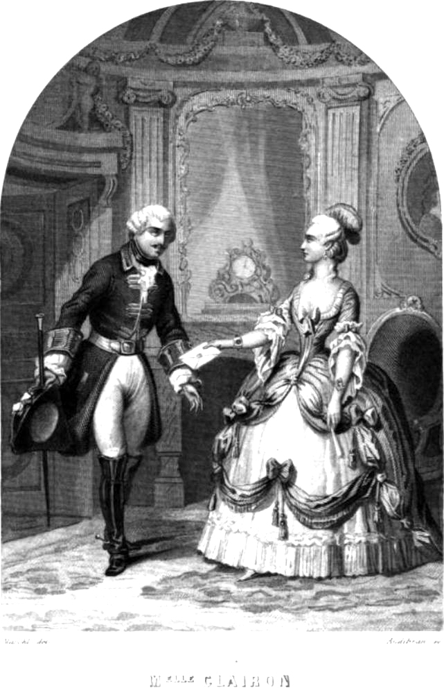 French actress La Clairon off to the For-l'Évêque Prison